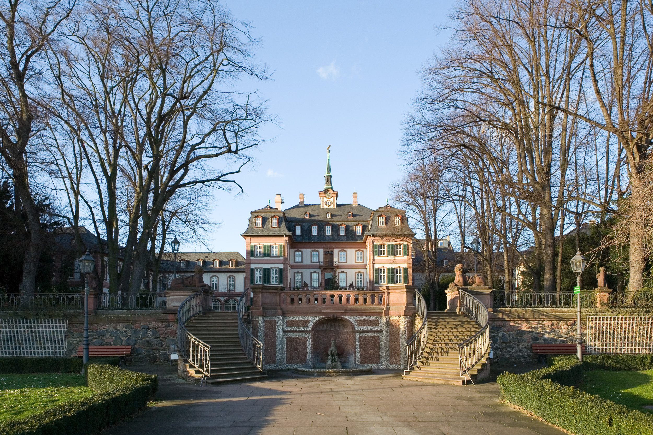 Frankfurt am Main, Hoechst: southern side of the Bolongaropalast (palace of Bolongaro)